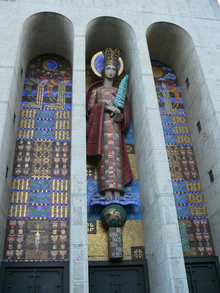 Madonna, Queen of peace, by Emil Sutor 1928 at Women's Peace Church Frankfurt Bockenheim Germany